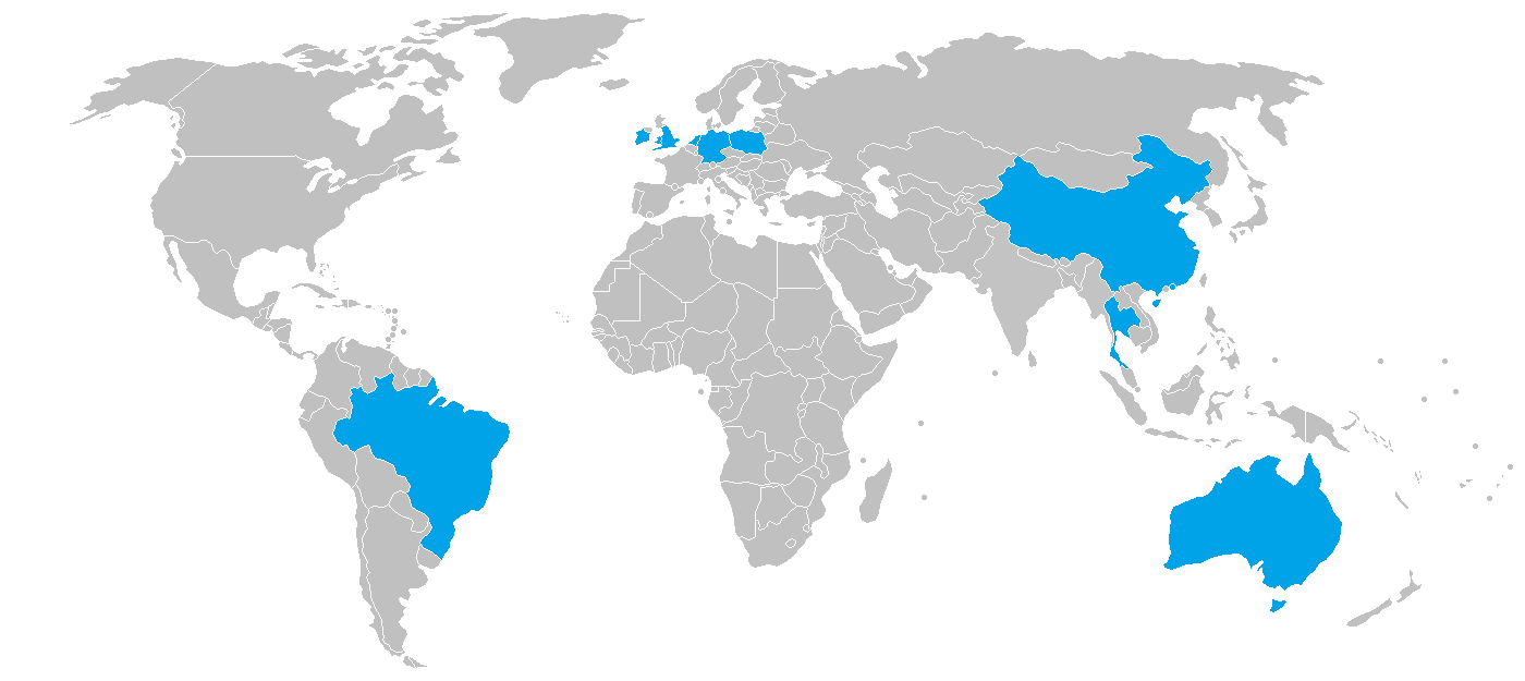 Nations hosting a World Snooker Tour event in 2011/12